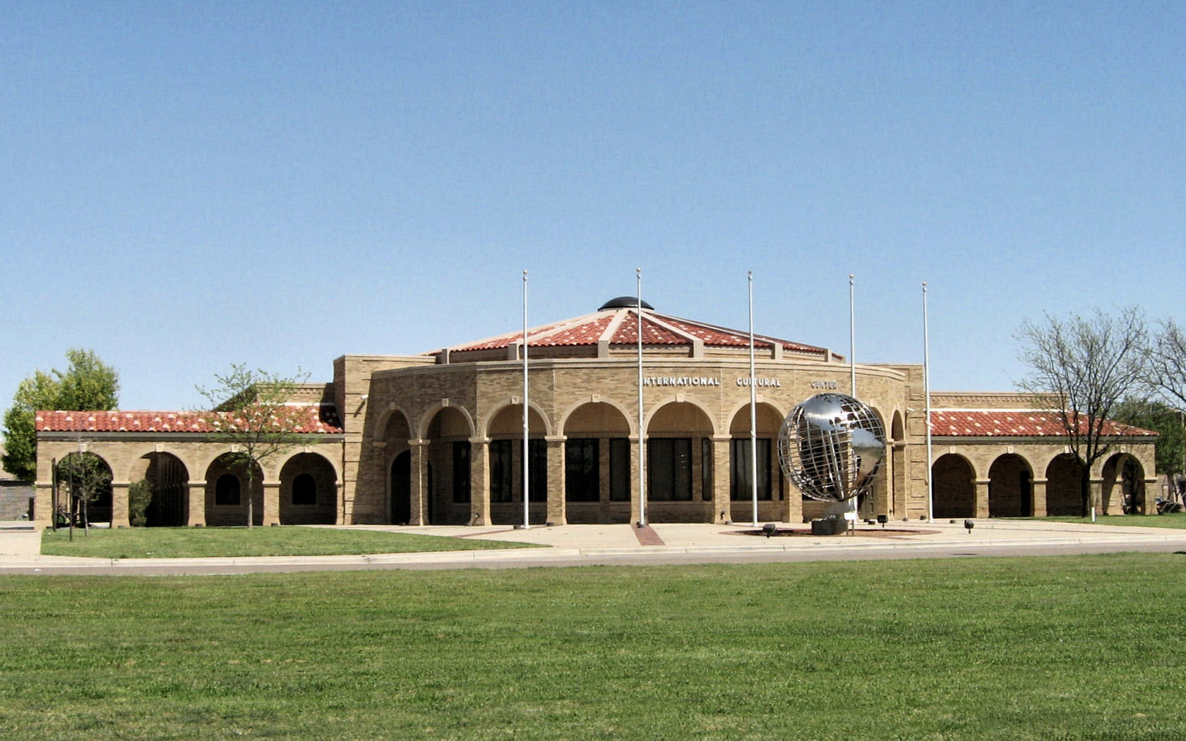 The Cultural Center at Texas Tech University in Lubbock, Texas, U.S.